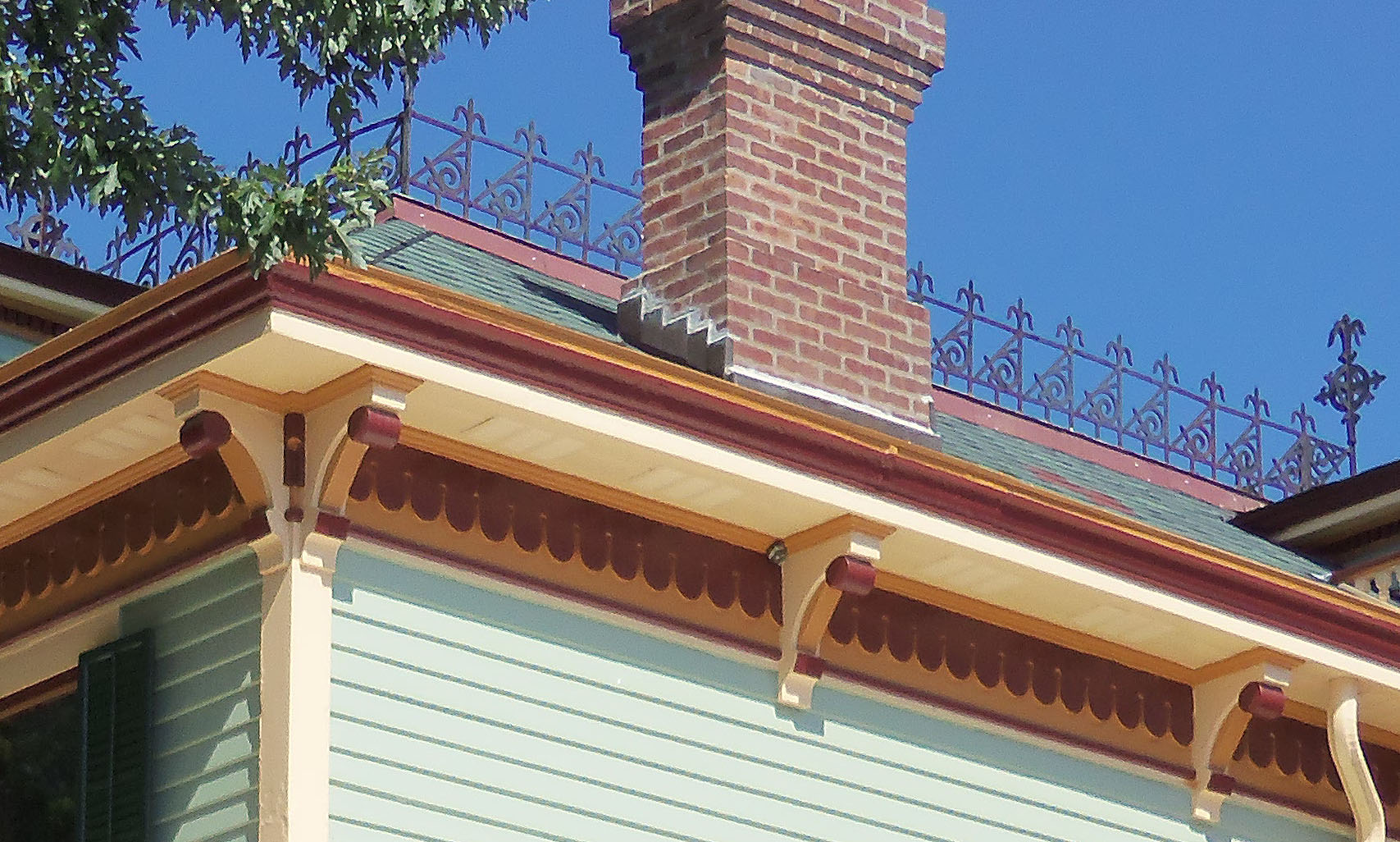 Close-up view of the Thomas Murray House to show cresting